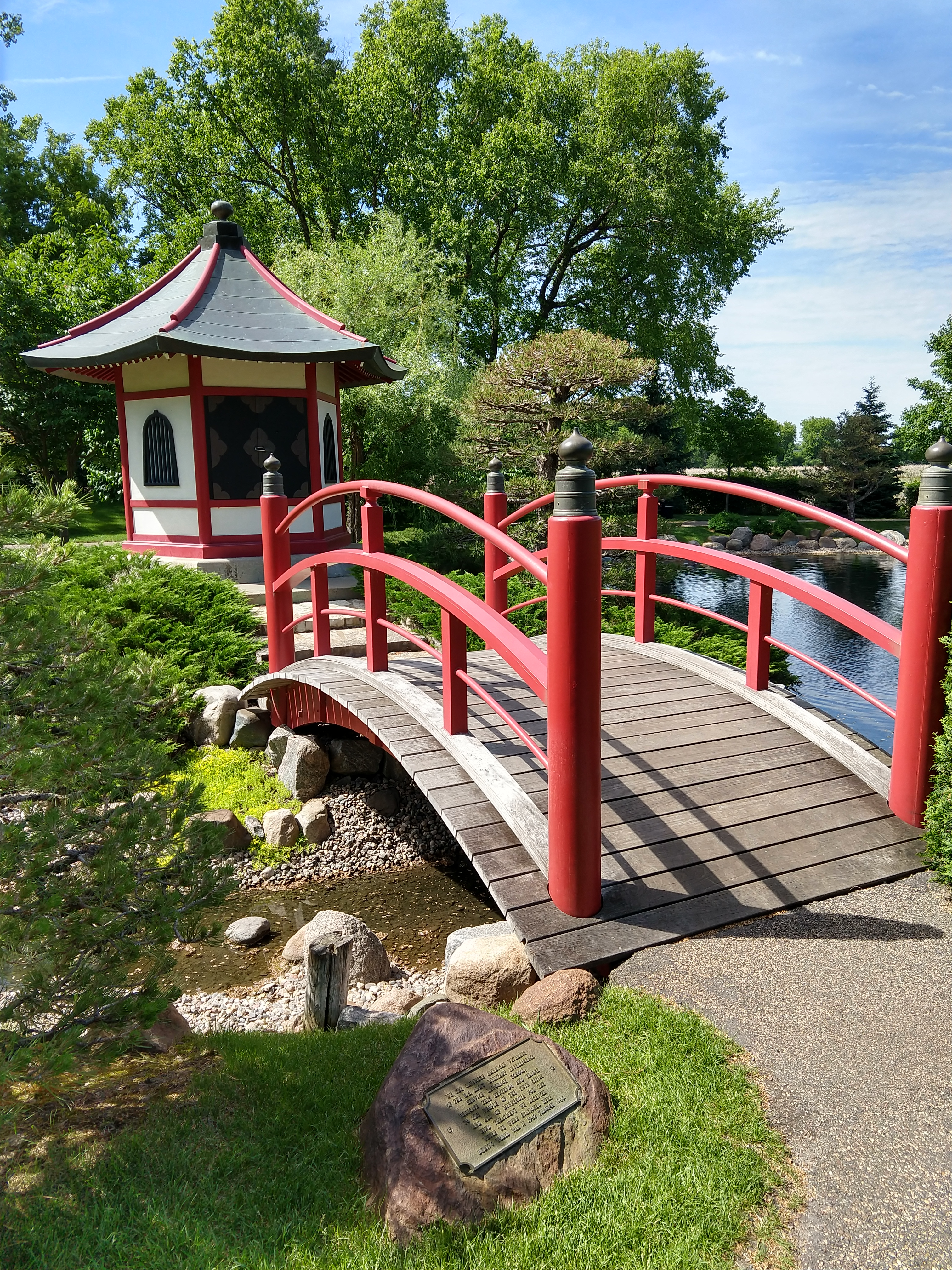 Exterior of Normandale Community College in Bloomington, Minnesota